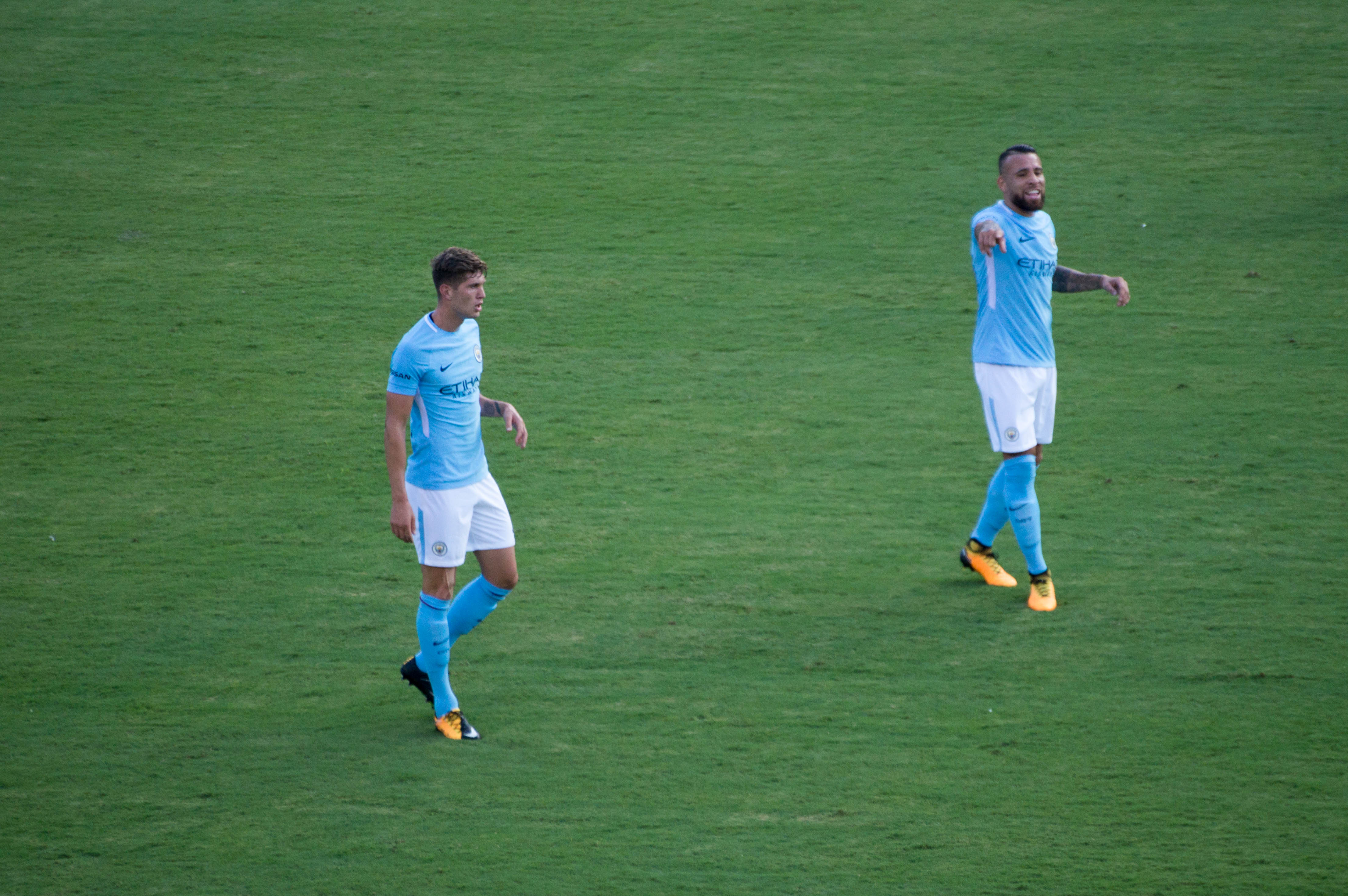 Manchester City vs Tottenham Hotspur at Nissan Stadium in Nashville, TN